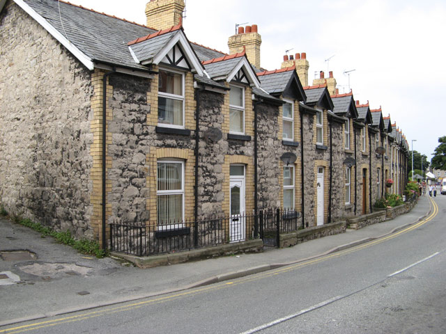 Cottages in Water Street, Abergele, Conwy County, Wales. Interesting architectural style in this row of cottages. Very reminiscent of the valleys of south Wales, but built with Carboniferous Limestone rather than sandstone.